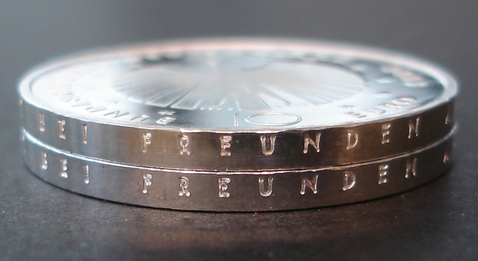 German special coin coined in occasion to the Soccer World Cup 2006 in Germany. The smaller middle line of the letter E in the word FREUNDEN at the lower coin indicates the coining place Karlsruhe; for details see Euro_gold_and_silver_commemorative_coins_(Germany)#2006_coinage.